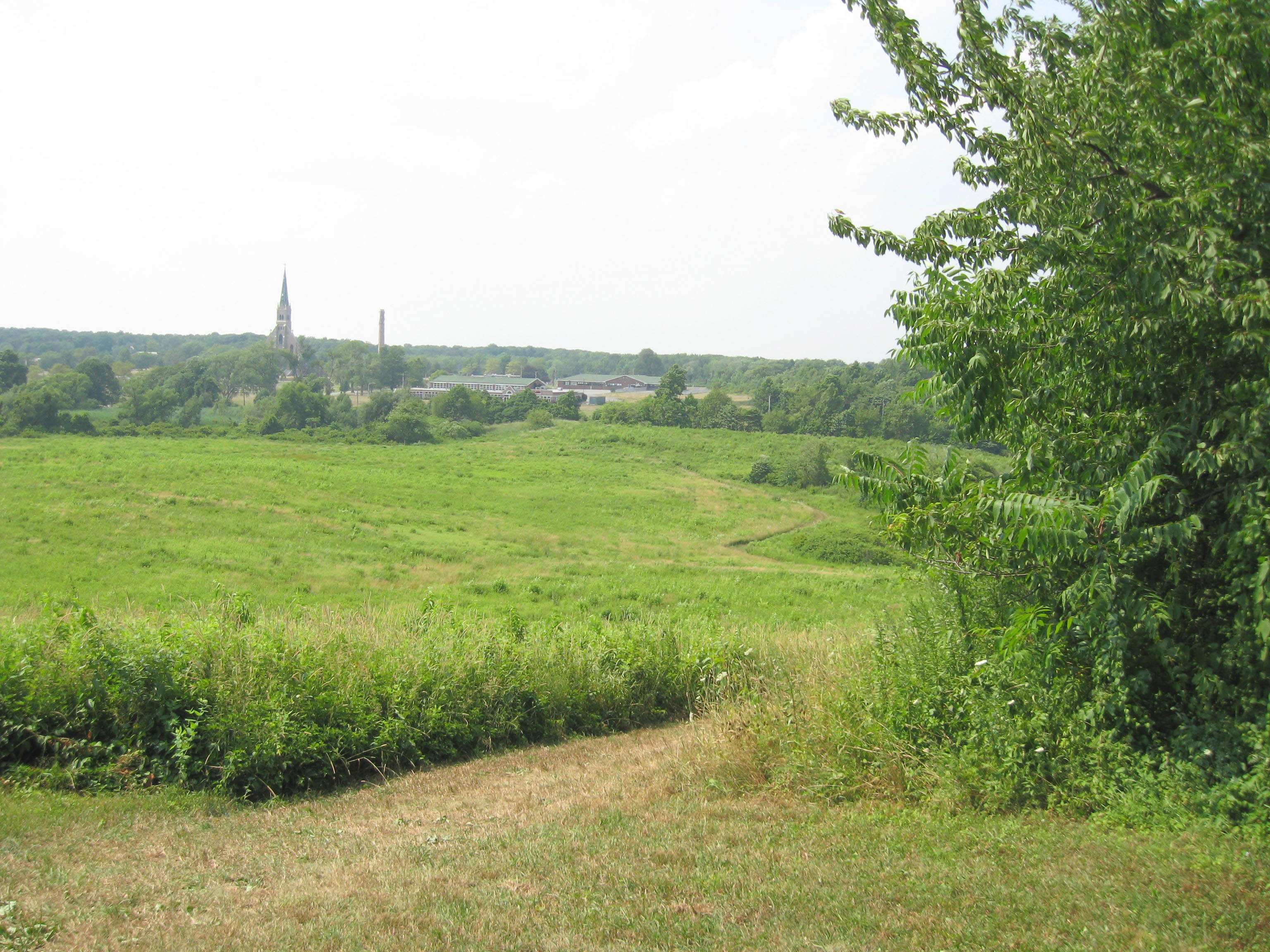 Lookng north across Mt Loretto Unique Area at the distant ruined Old Church of St. Joachim and St. Anne (Staten Island, New York) and other buildings in Pleasant Plains, Staten Island on a sunny midday